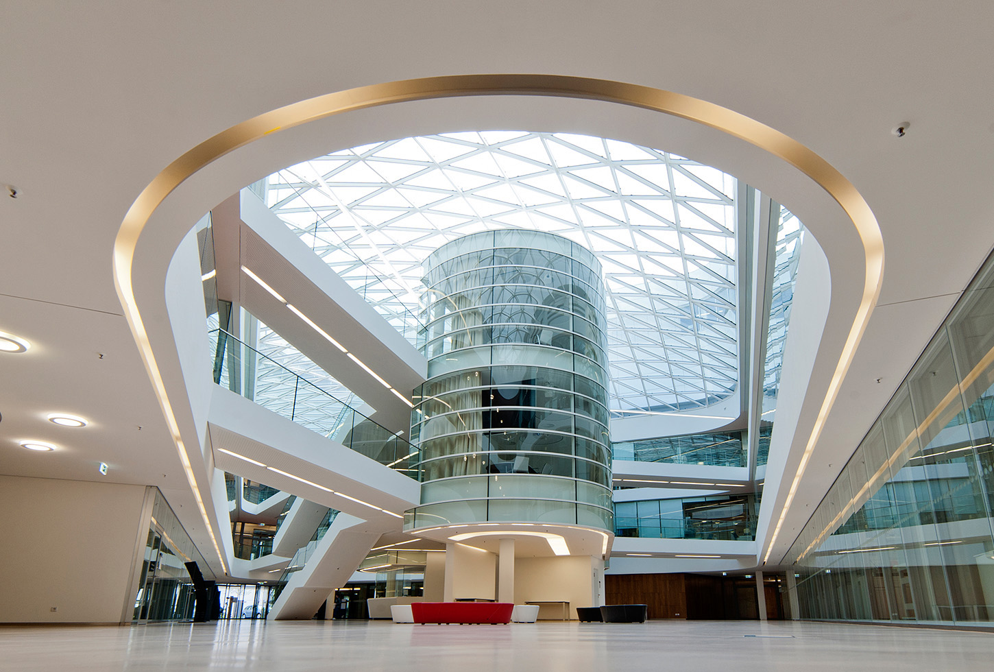 Atrium of the Max Planck Institute for Biology, Cologne